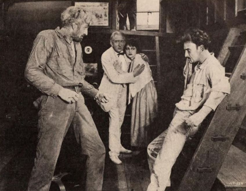 Still from the American drama film Godless Men (1920) with Russell Simpson, Alec B. Francis, Helene Chadwick, and James Mason, from an advertisement insert after page 87 of the December 4, 1920 Exhibitors Herald.